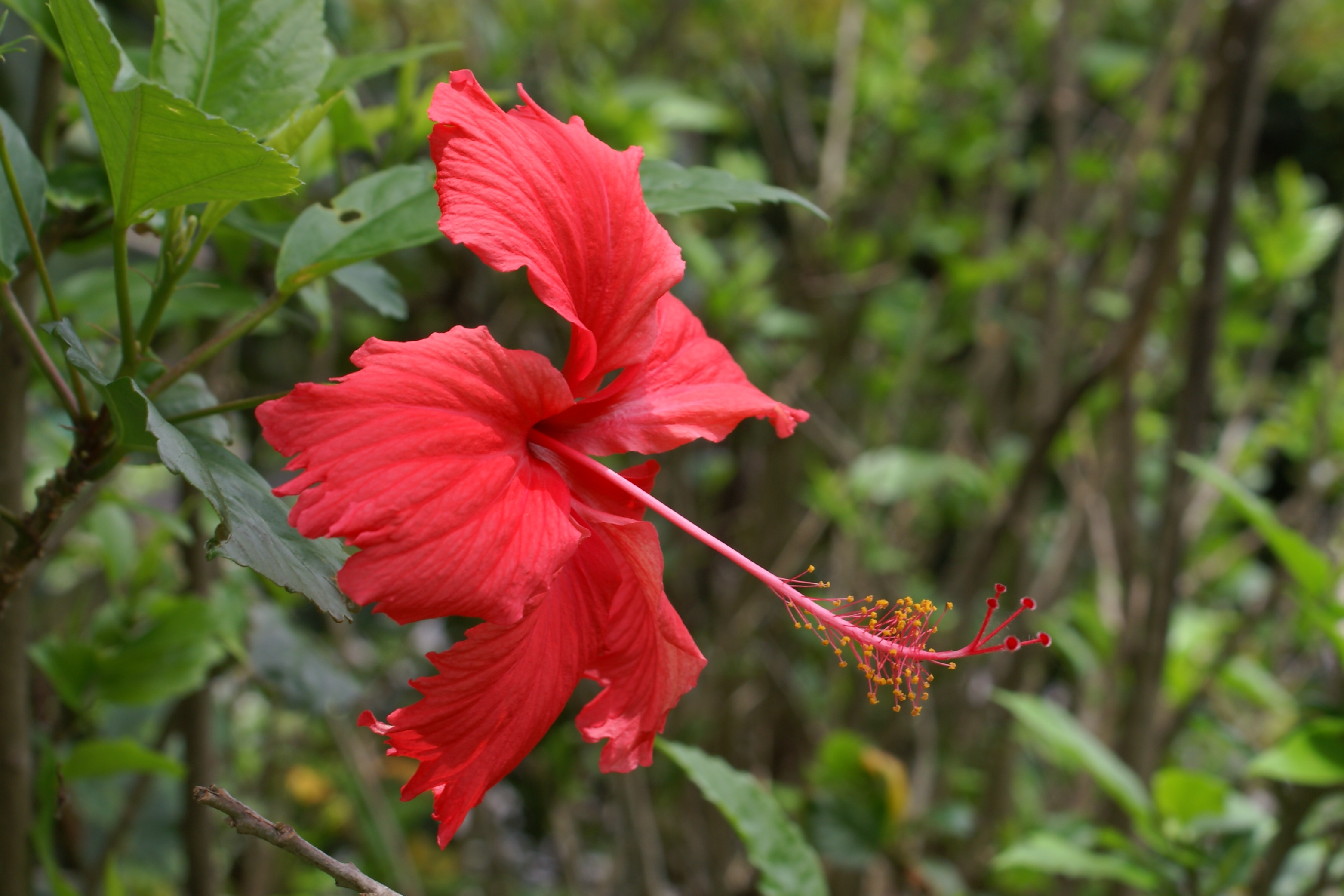 Hibiscus flower Hibiscus rosa-sinensis, in my garden (Réunion island)